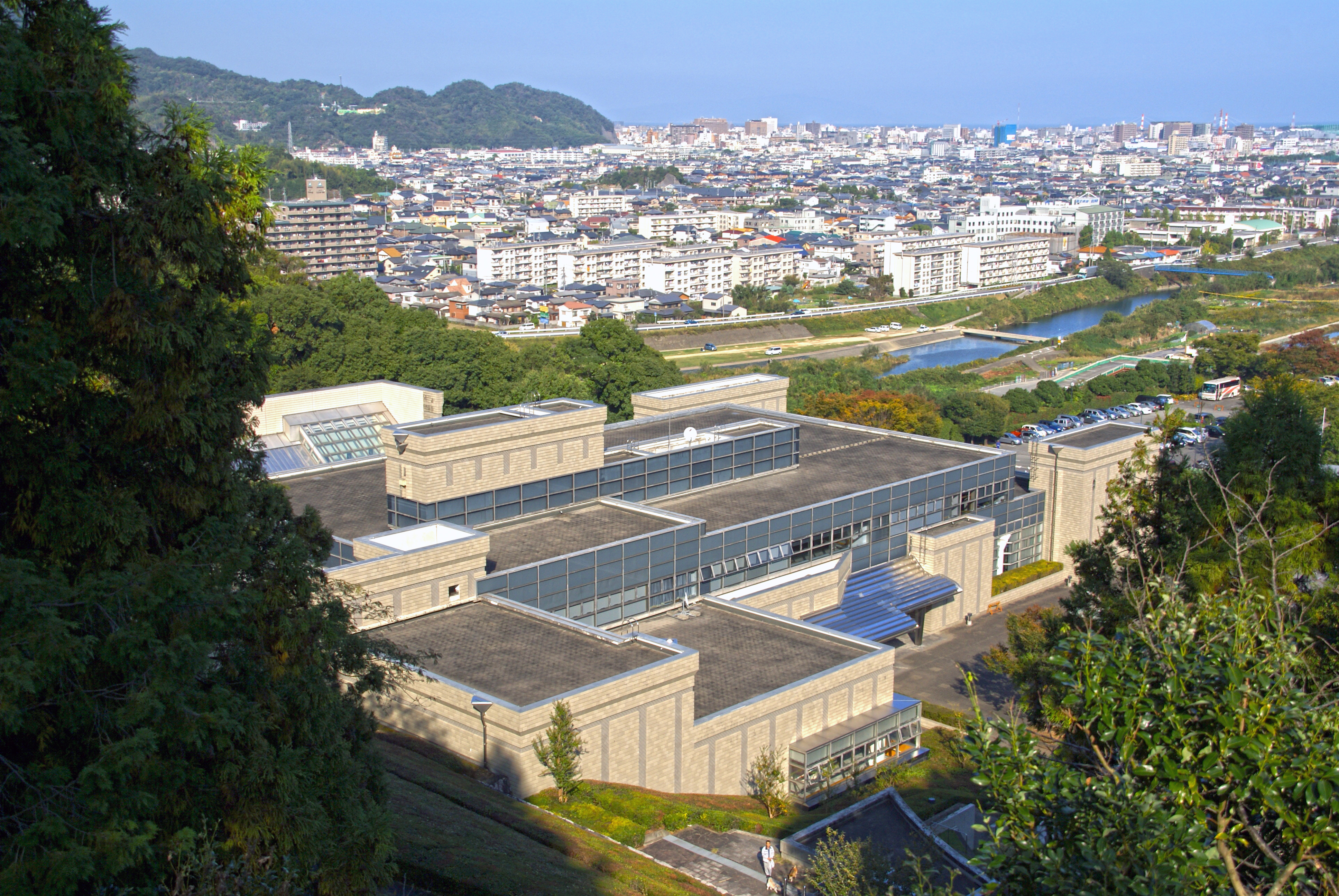 Tokushima Prefectural Library of Tokushima Bunka-no-Mori Park in Tokushima, Tokushima prefecture, Japan